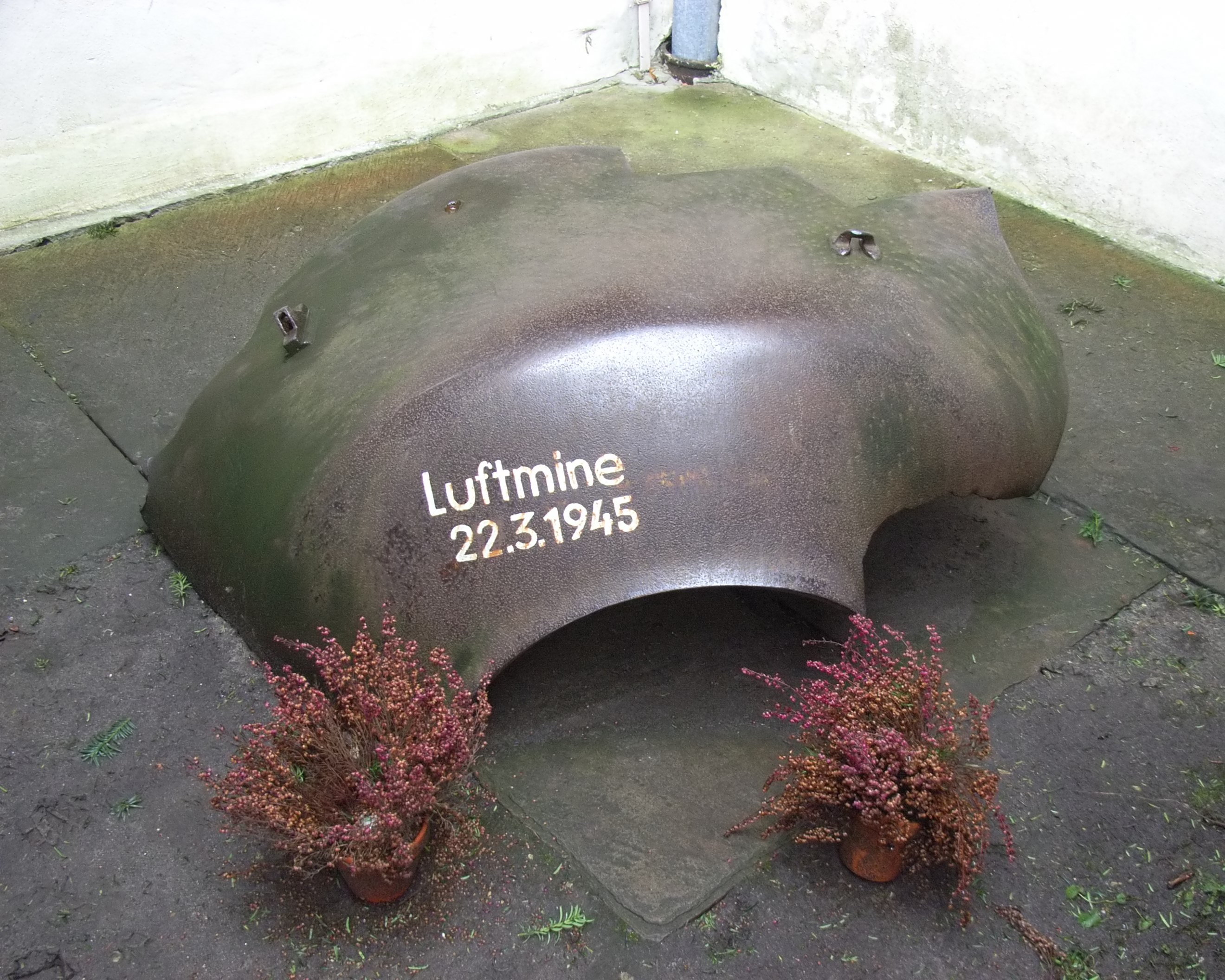 Paderborn, Germany: Aerial mine in the cloister of the Paderborn Cathedral